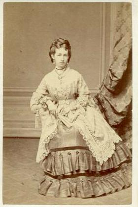 Elisabeth, Princess zu Schaumburg-Lippe (1841-1926), daughter of Georg Wilhelm, Fürst zu Schaumburg-Lippe and Princess Ida Caroline Luise zu Waldeck und Pyrmont). -spouse of Wilhelm , 2. Fuerst von Hanau.